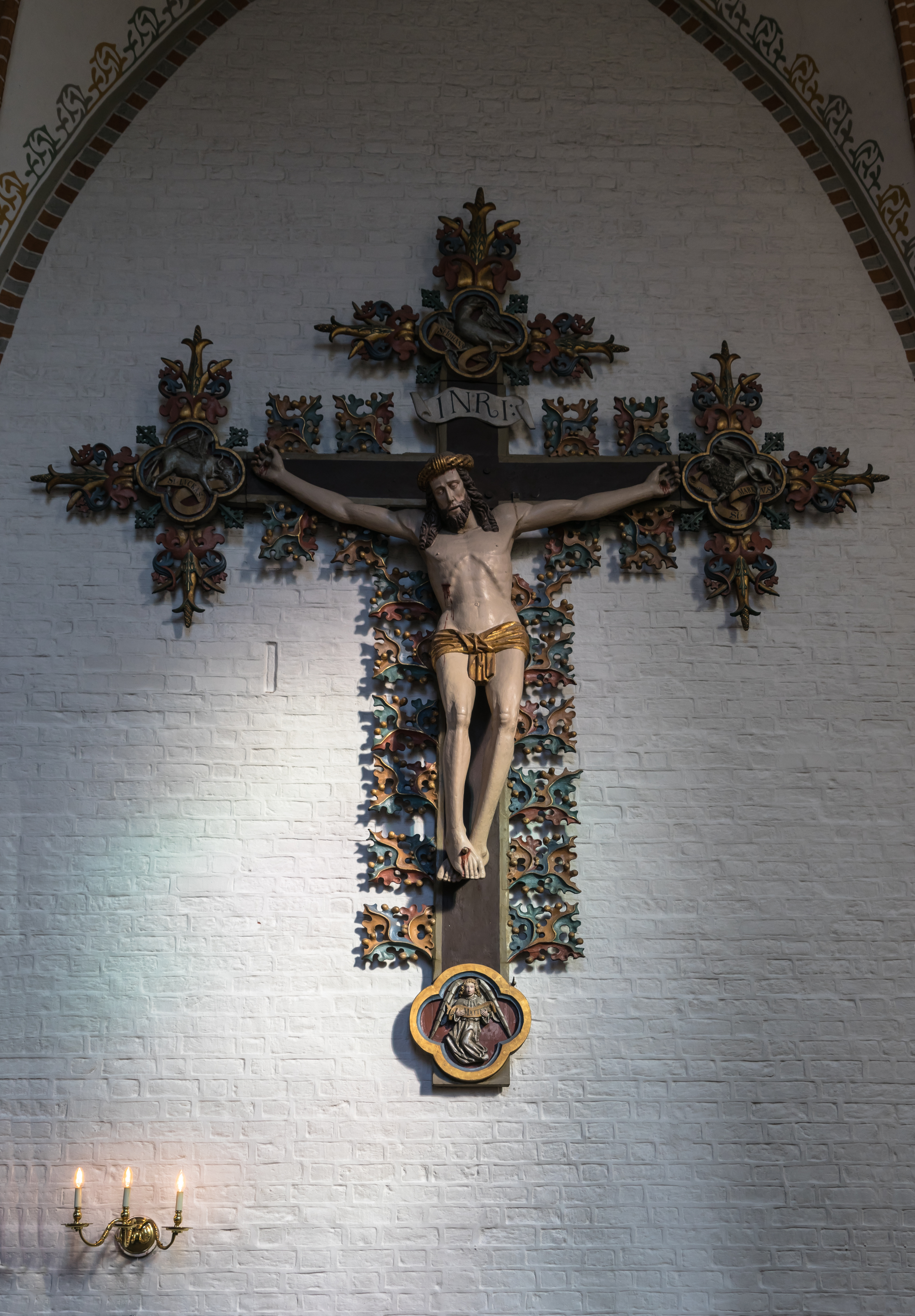 Christ in church saint Hans in Odense, Denmark